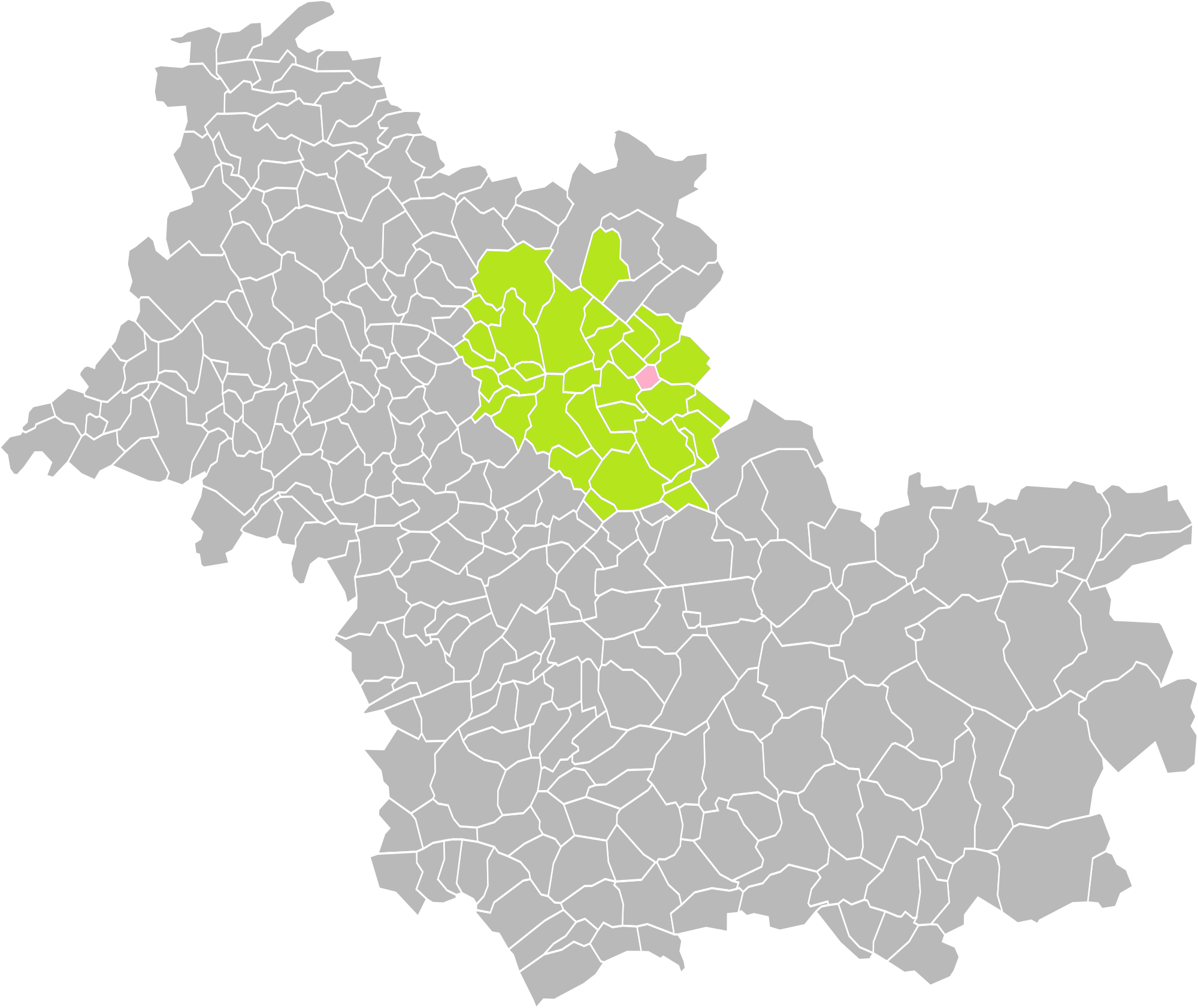 Location of the commune of Concriers in the Communauté de communes de la Beauce-Val de Loire (Loir-et-Cher)